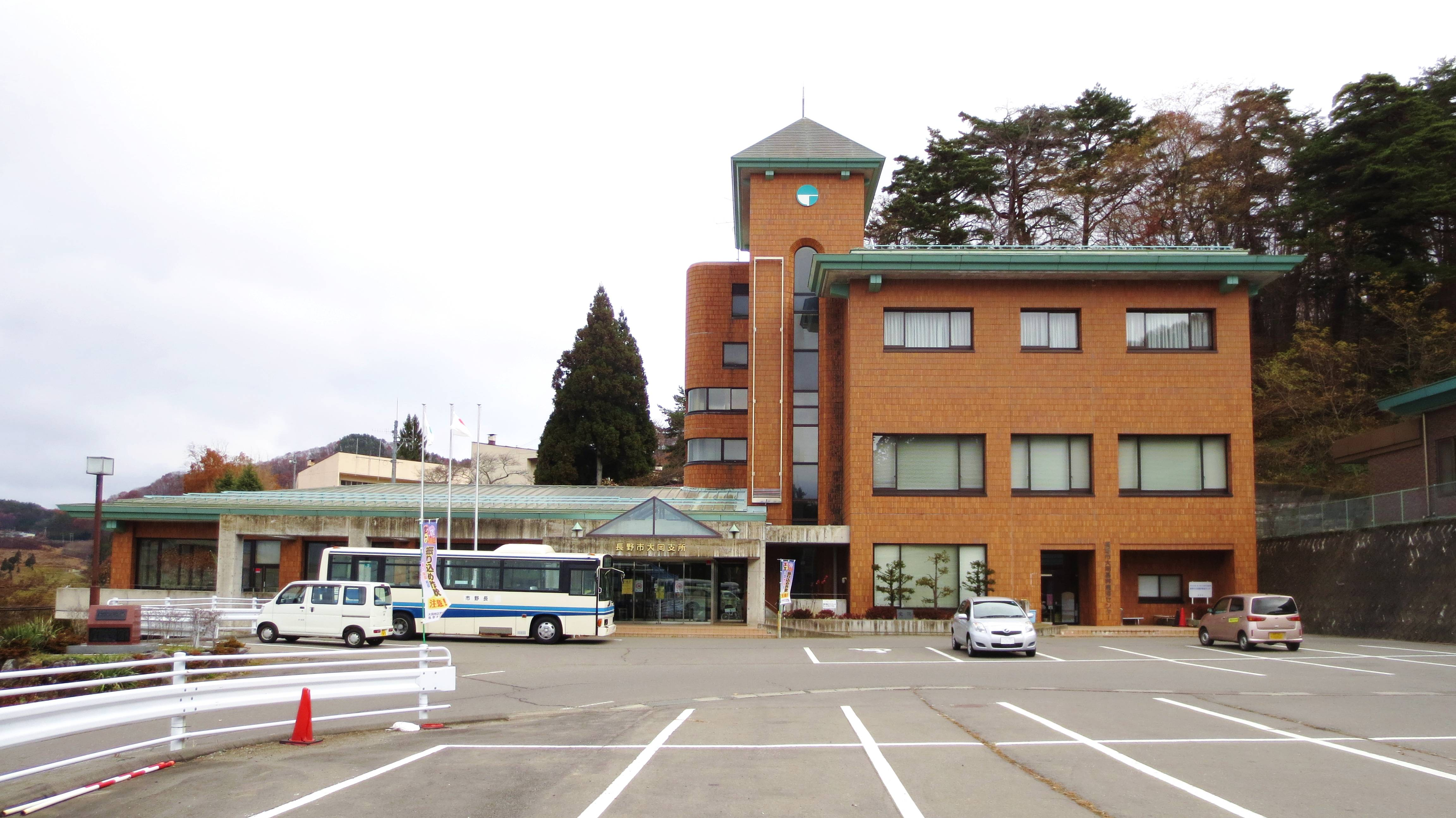 Nagano city Ōoka branch office.